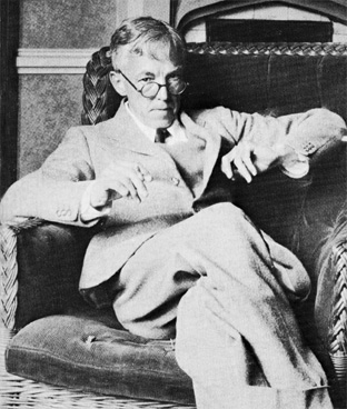 photograph of Hardy